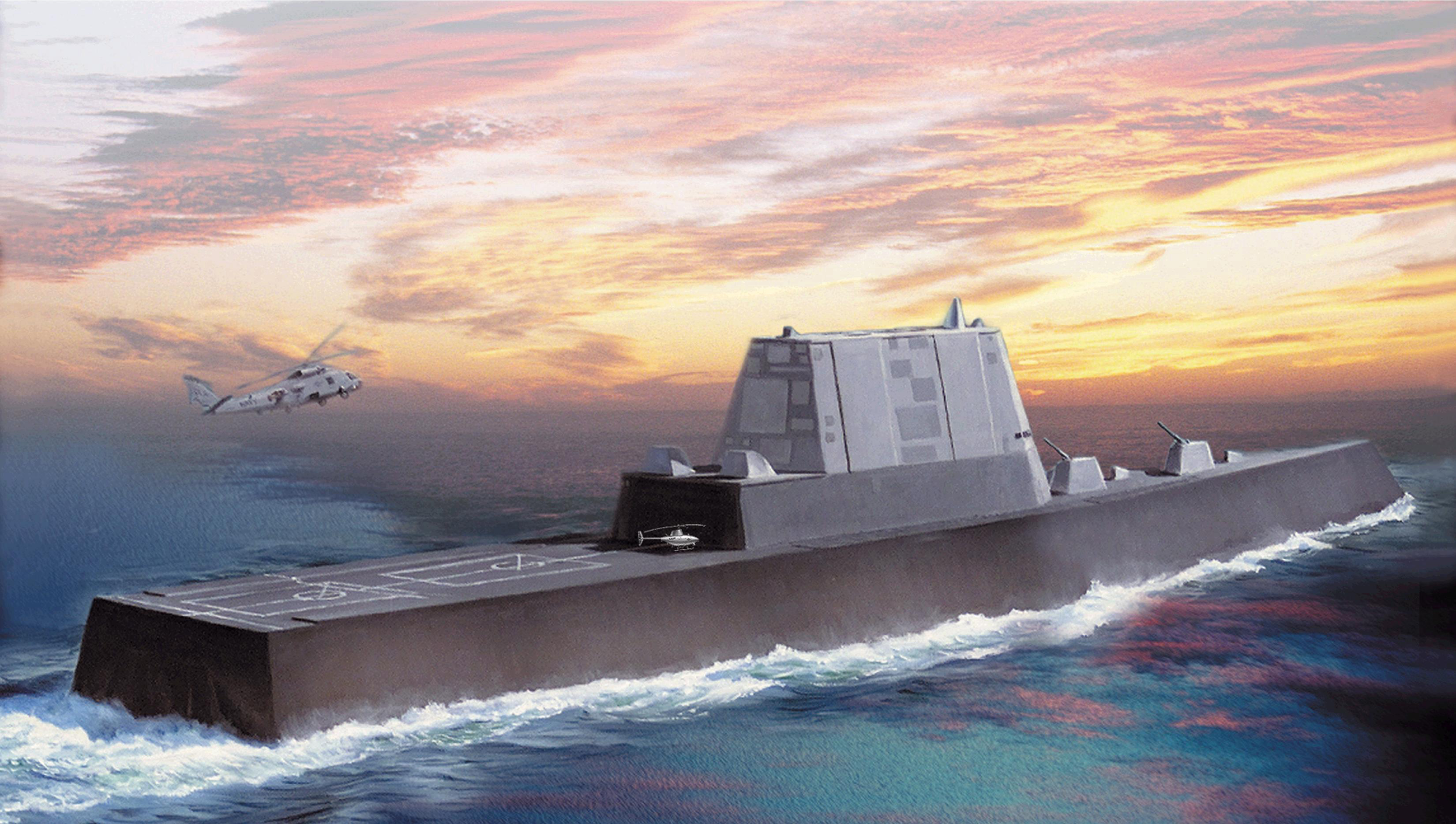 Artist’s concept of the 210-meter (689 feet) DD(X) destroyer design by a Northrop Grumman Corporation-led team selected by the U.S. Navy to complete the system design for the Navy's advanced, 21st century surface combatant DD(X). U.S. Navy graphic.